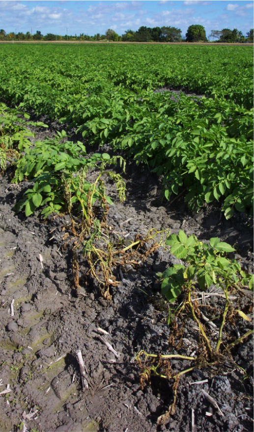 Blackleg of potato symptoms showing complete plant wilt and death in the field caused by the plant pathogen Pectobacterium atrosepticum.